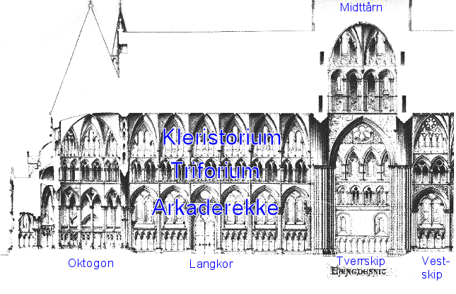 Cross section of Nidaros Cathedral, Trondheim, Norway. Drawing by Chr. Christie c. 1870s; terms added. Published in Fischer 1965.